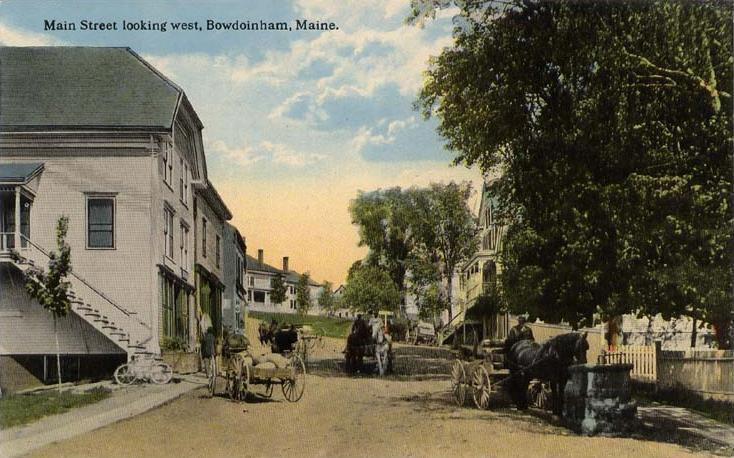 Main Street looking west, Bowdoinham, Maine